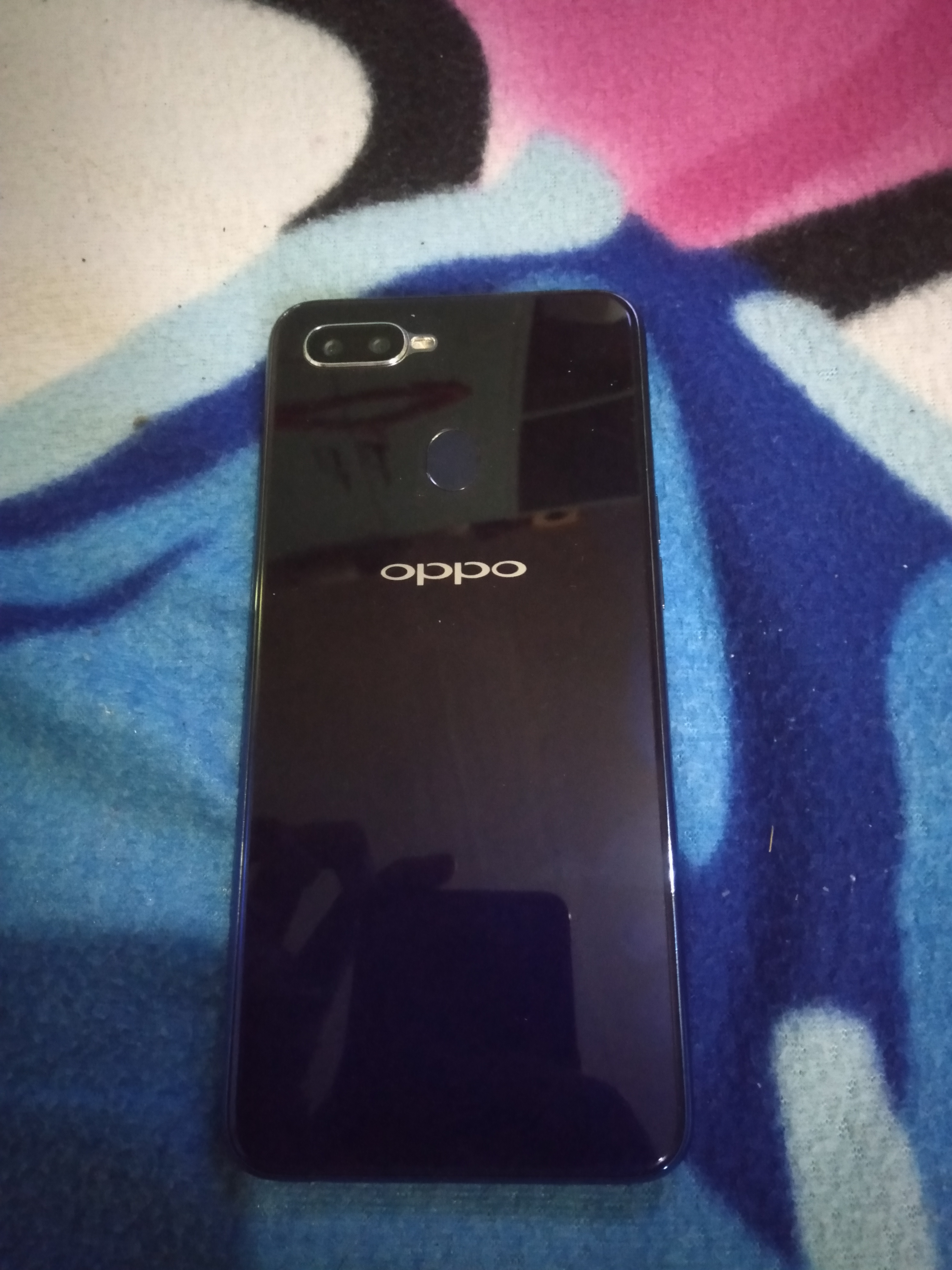 An OPPO F9 phone.